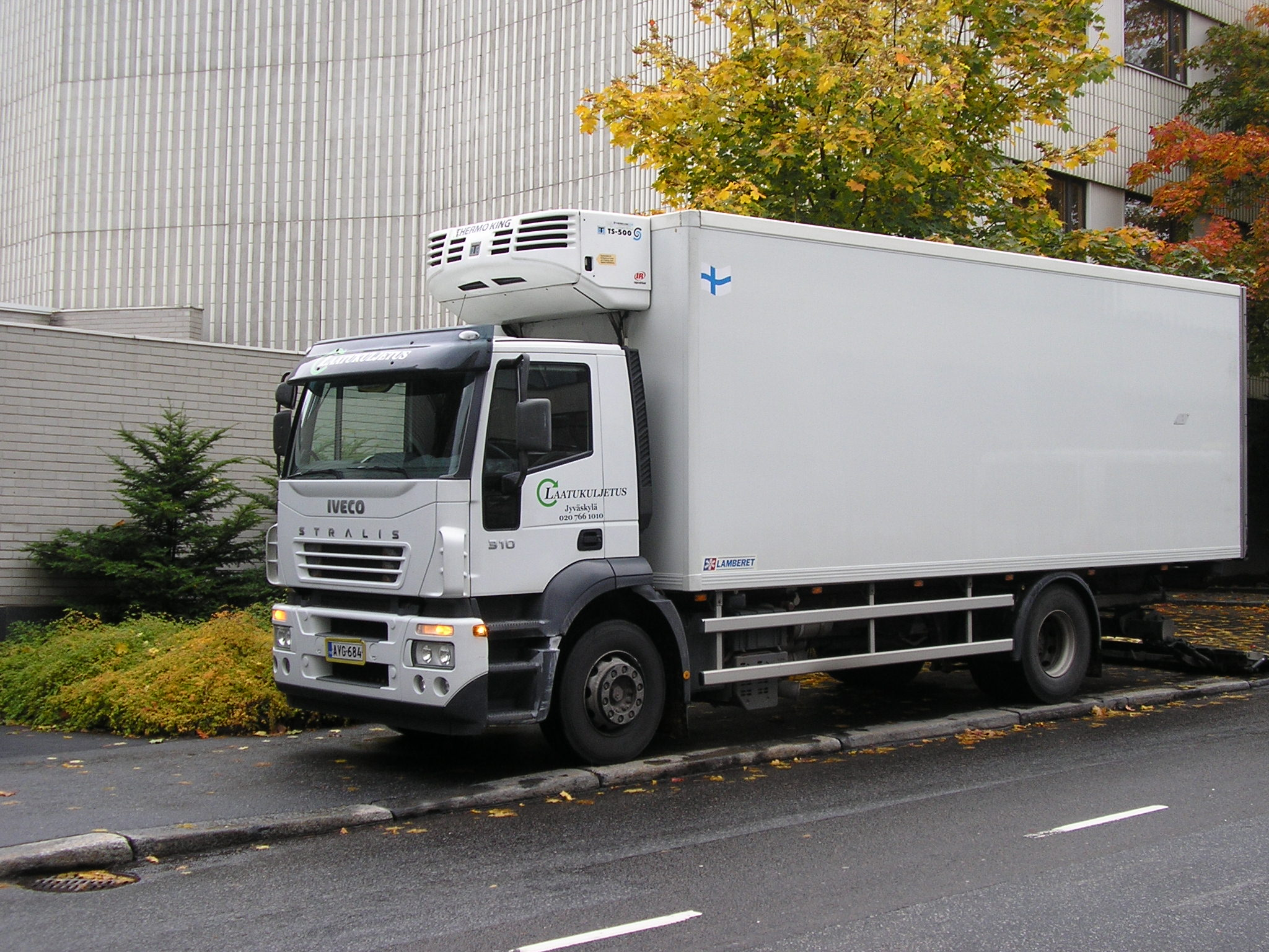 Iveco Stralis truck in Jyväskylä, Finland